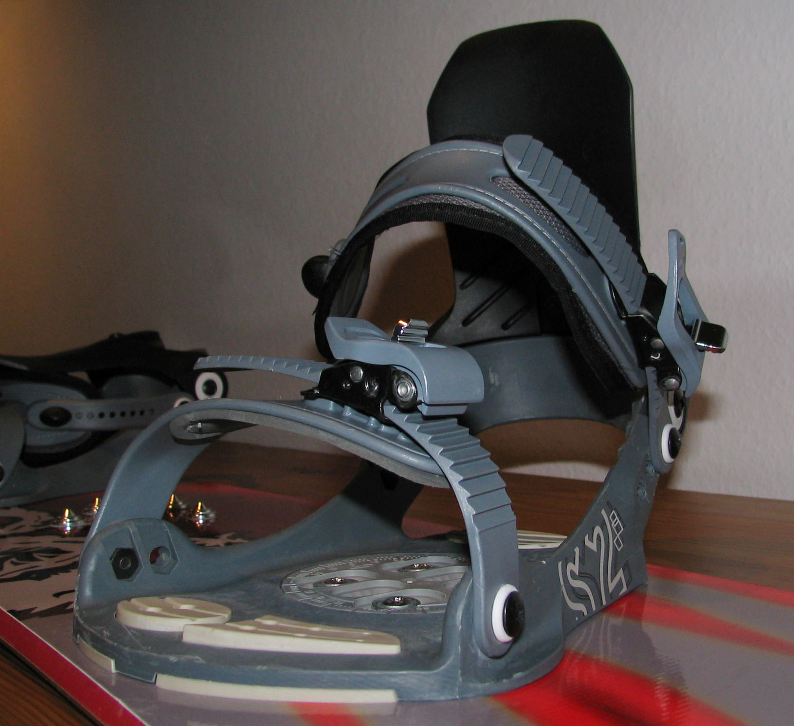 Snowboard soft binding